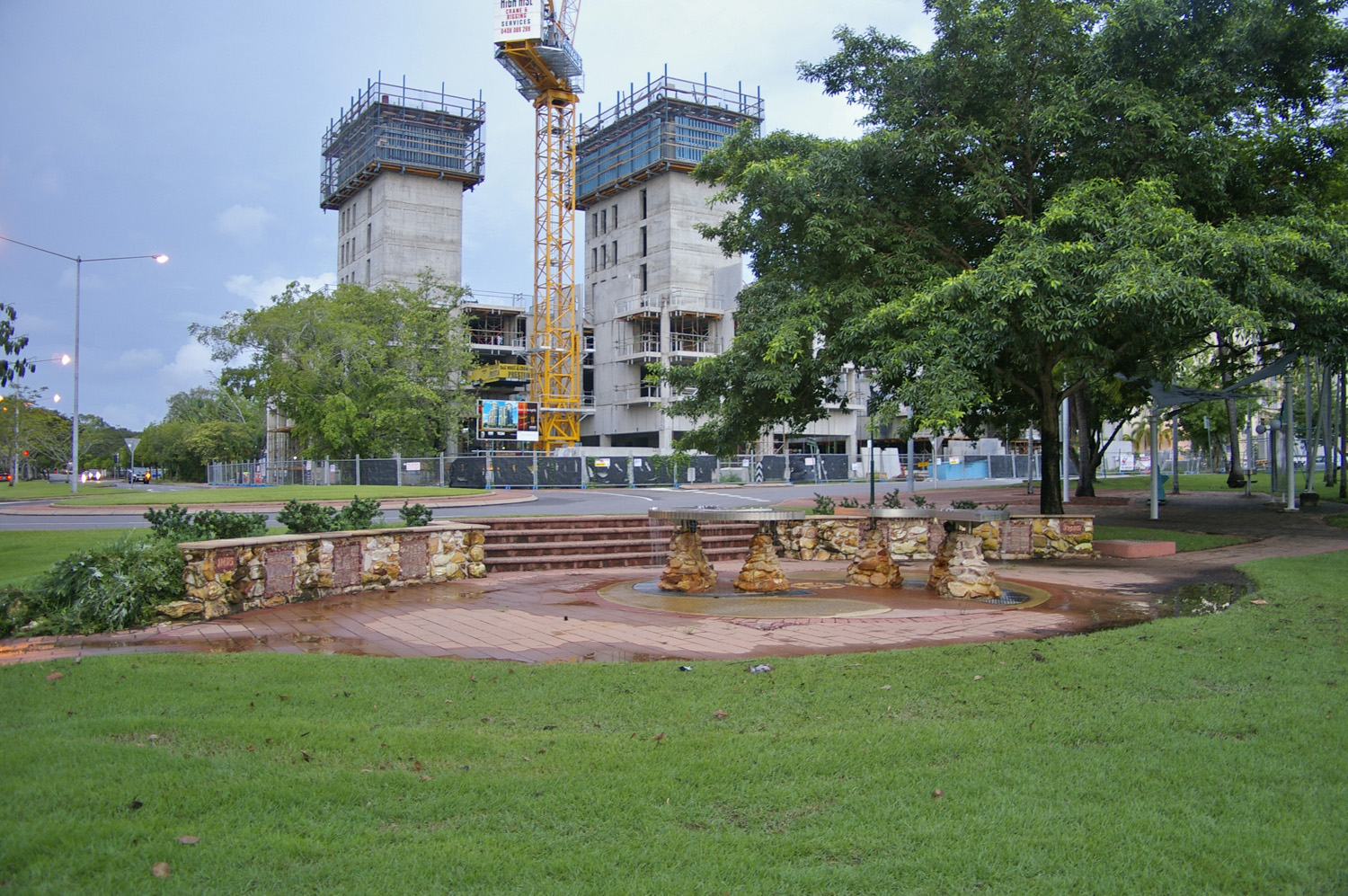 Bicentennial Park. Darwin, Northern Territory